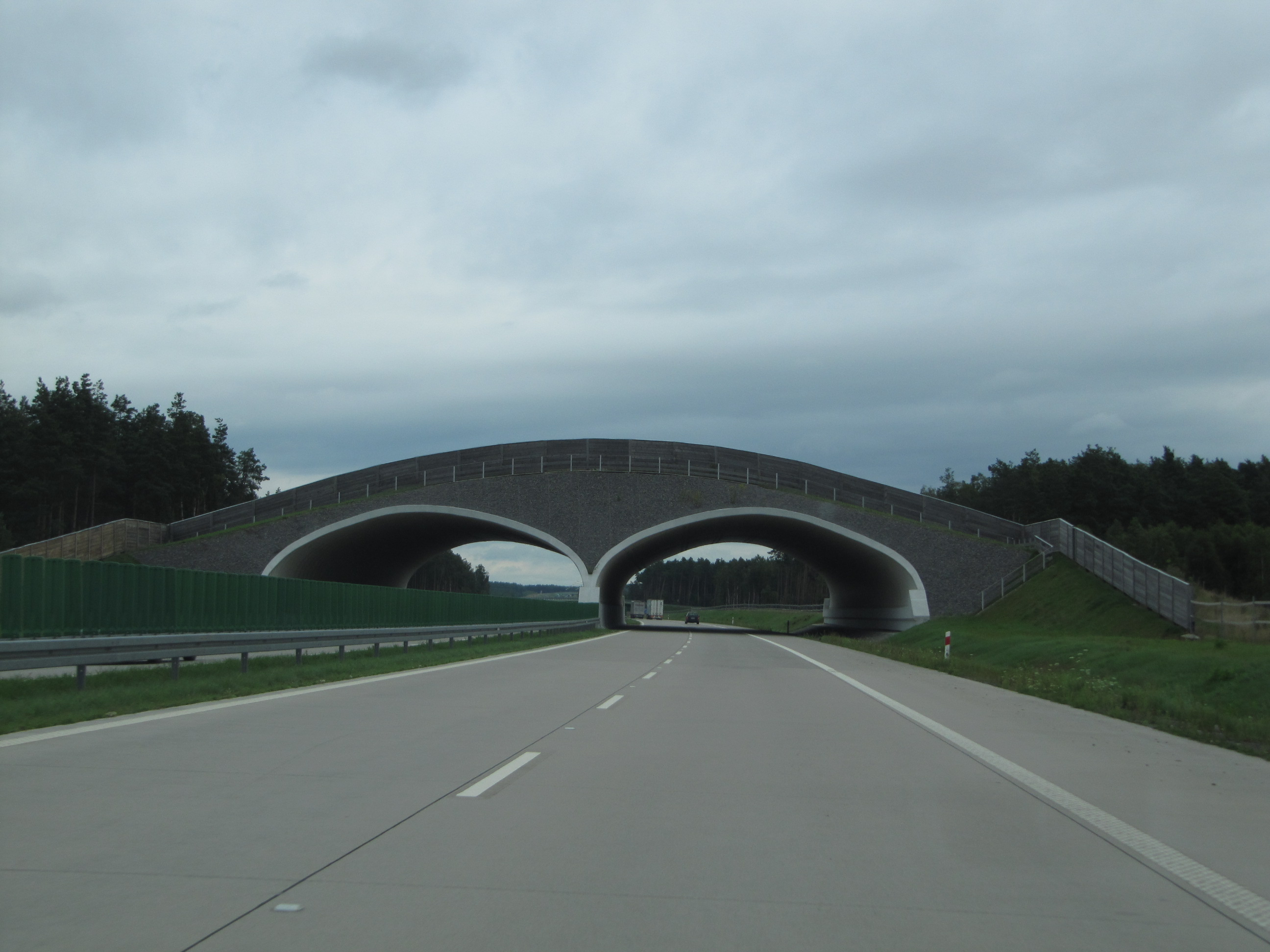 Wildlife crossing on the polish Motorway A4 between the Polish-German border in Zgorzelec and the junction Krzyżowa.